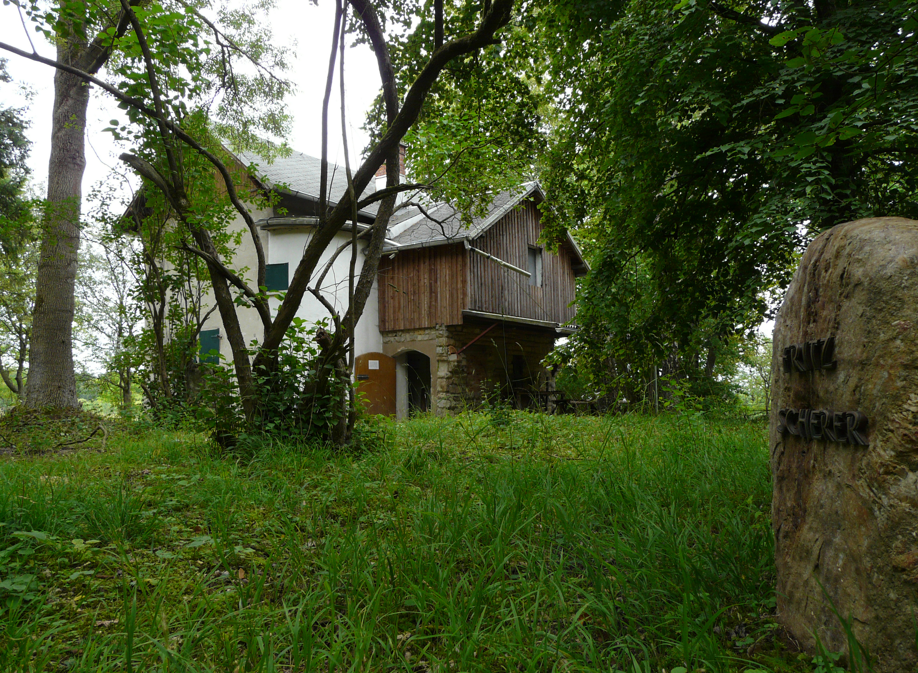 The Bakuninhut near Meiningen, with the Fritz Scherer memorial stone in the foreground.